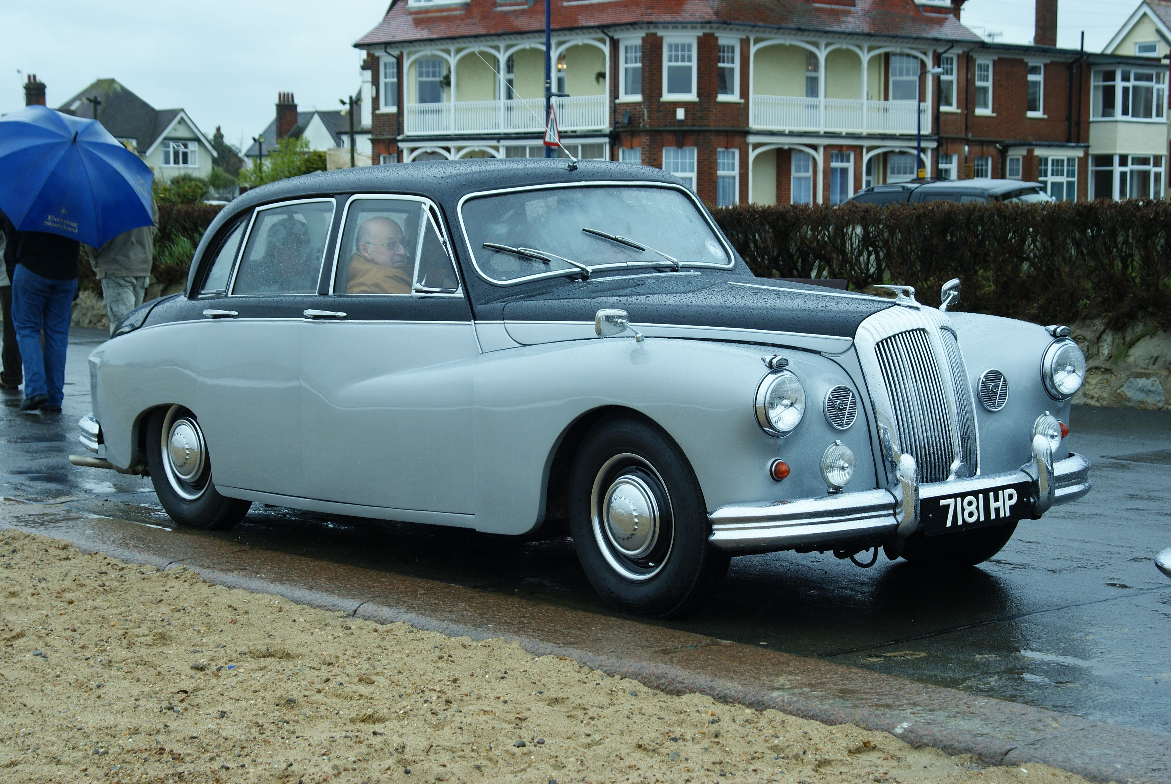 Daimler Majestic Major first registered 17 October 1960This photo was taken on May 2, 2010 in Felixstowe, England, GB, using a Sony DSLR-A300.